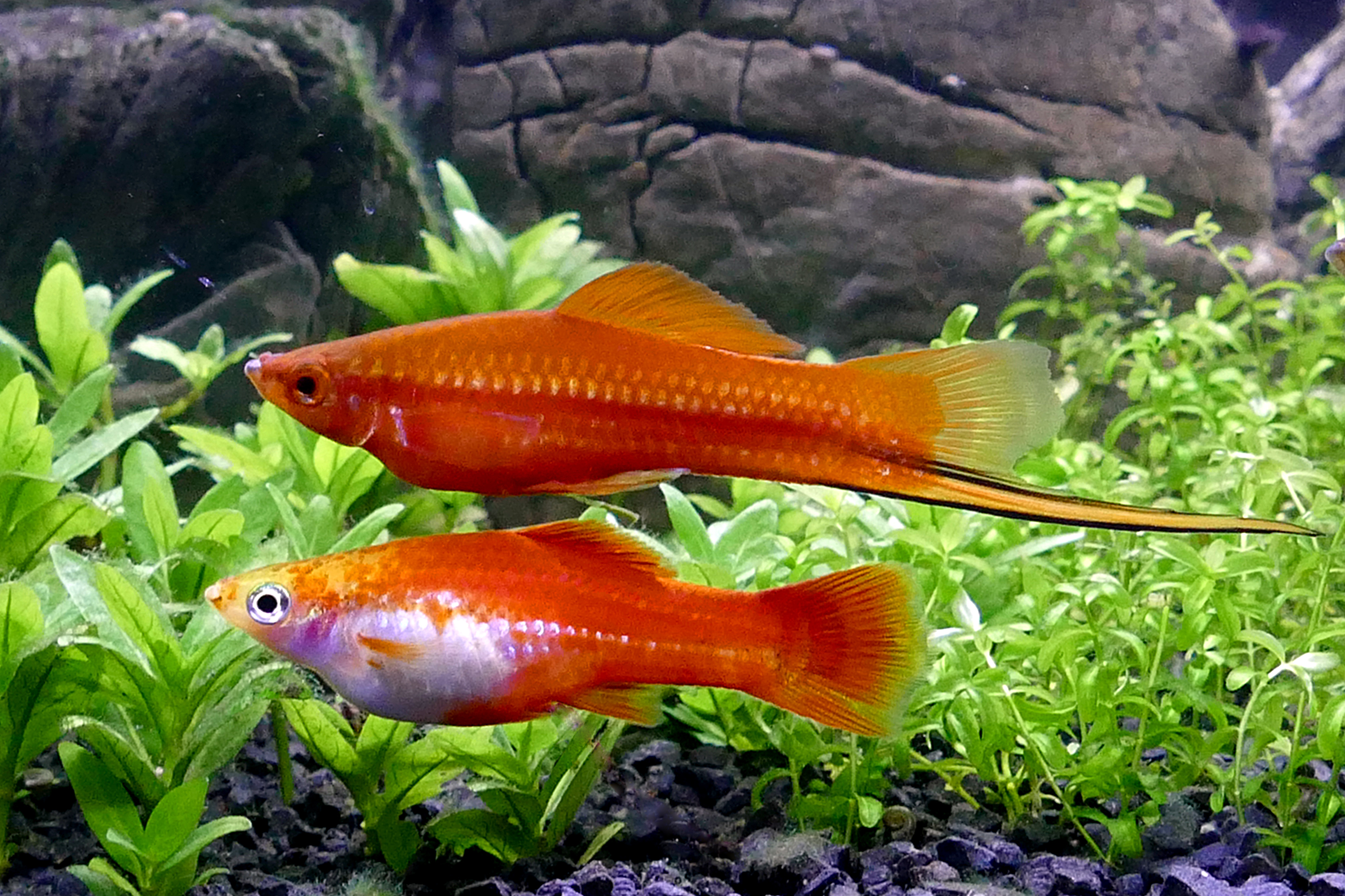 Xiphophorus Hellerii, Swordtail, red (male & female)